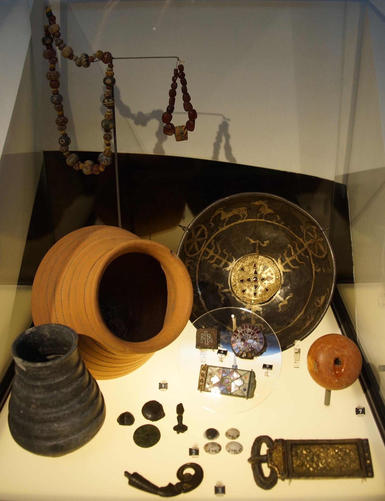 In 1813 this buckle, the mount with red, white and blue enamel, and the square coin were found together in a cemetry at Rijnsburg. The impressive gilded buckle with interwoven filigree and enamel inlay was probably mad in Kent (England) across the Channel. They are exhibited in the Rijksmuseum van Oudheden in Leiden. These finds amongst others indicate that the mouth of the Rhine was home to some people of very high status, perhaps even royalty.